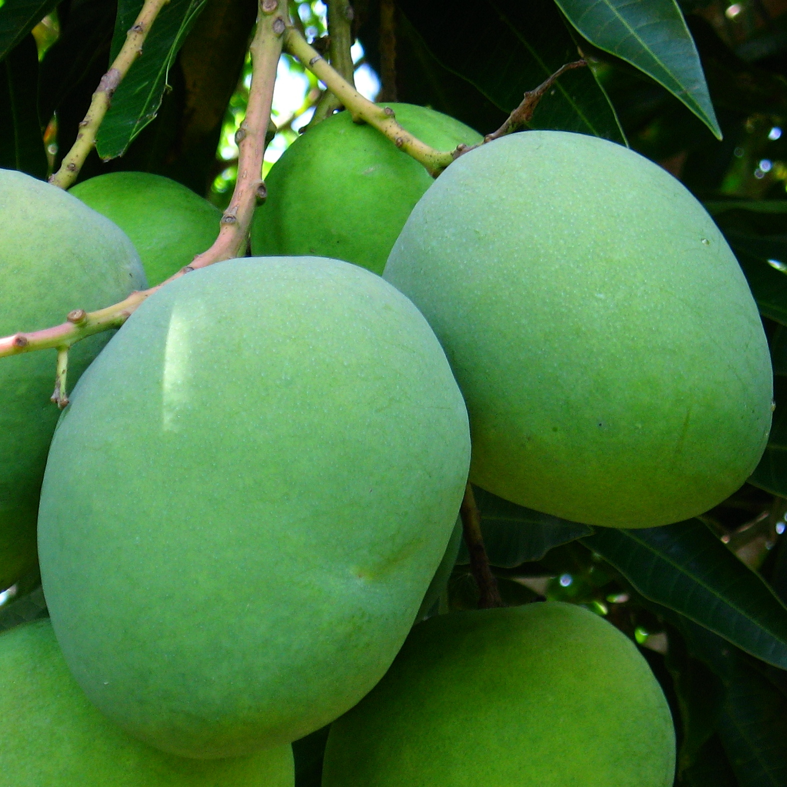 Detail of a green mango.